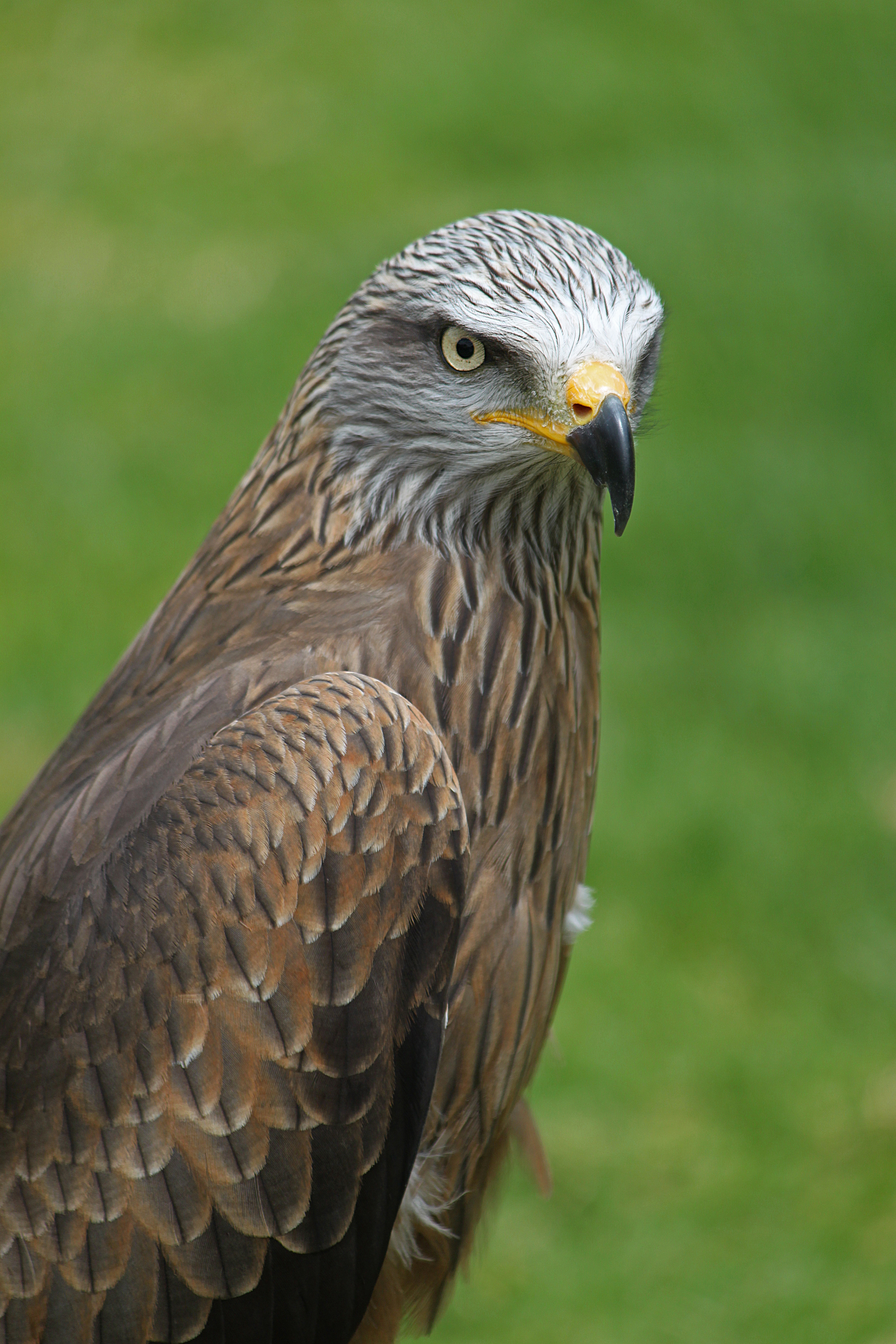 Black Kite; Texas Rancho Park, Puerto del Carmen, Lanzarote, Canary Islands, Spain.